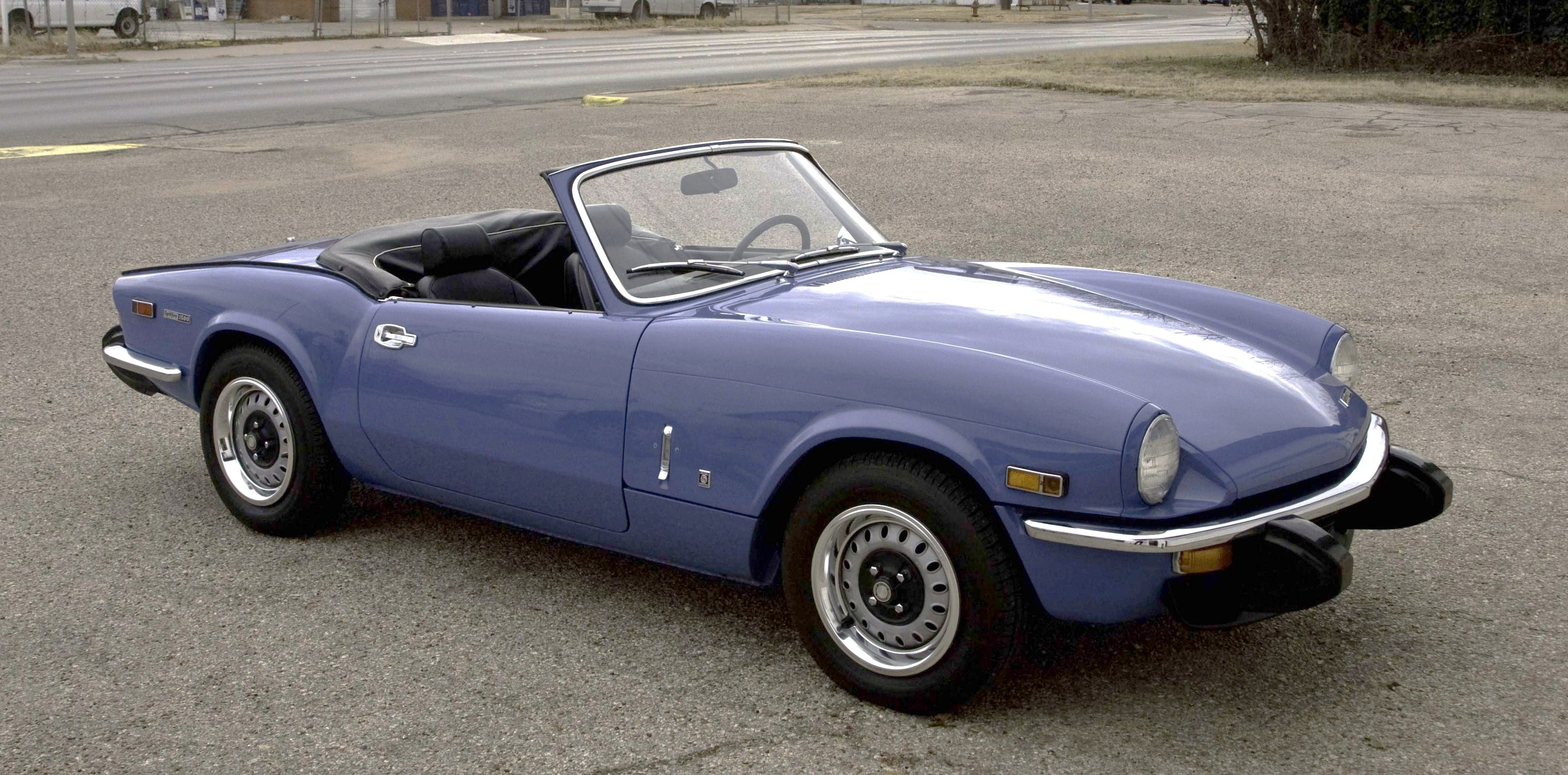 1974 Triumph Spitfire 1500